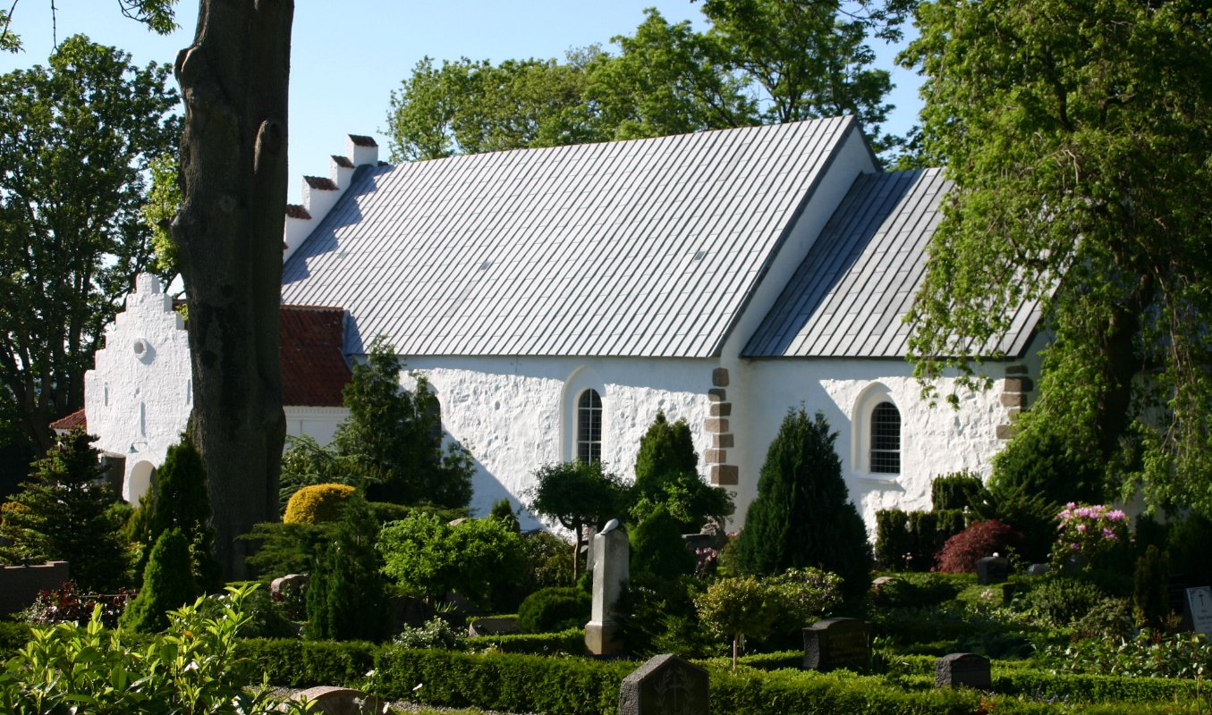 Tved Kirke (Church of Tved, Diocese of Århus, Denmark), eastern aspect.